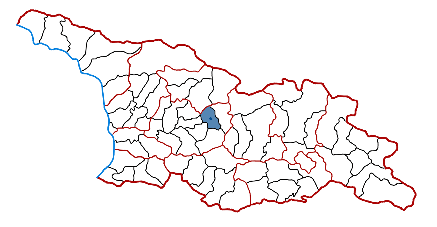 Location of Chiatura district in georgia